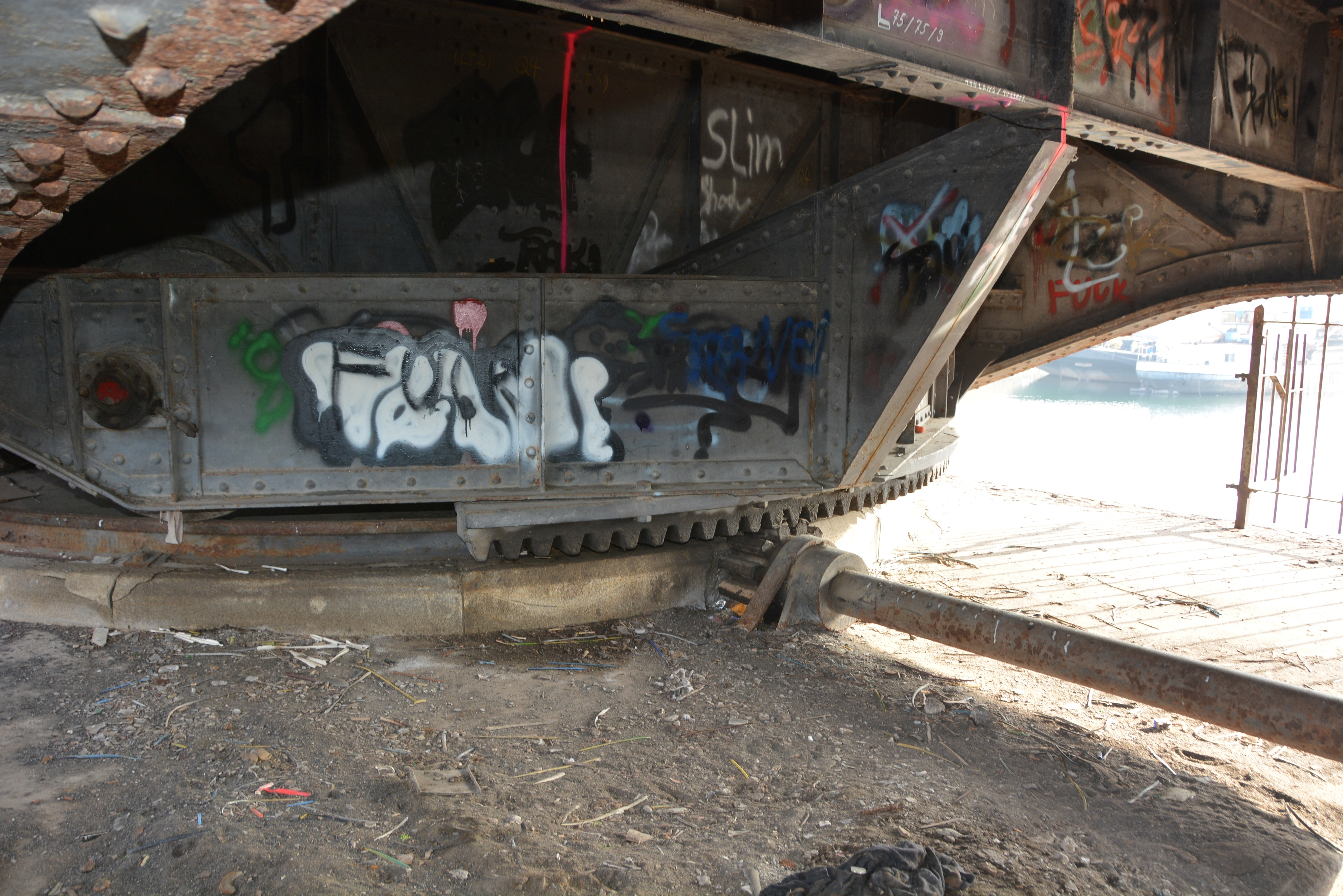 Teufelsbrücke ("Devil's Bridge"), Mannheim - drive for gear segment